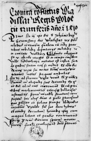 "Cronica conflictus Wladislai Regis Poloniae cum cruciferis Christi anno 1410" a manuscript from the years 1525-1550, from the PAN's Library of Kórnik